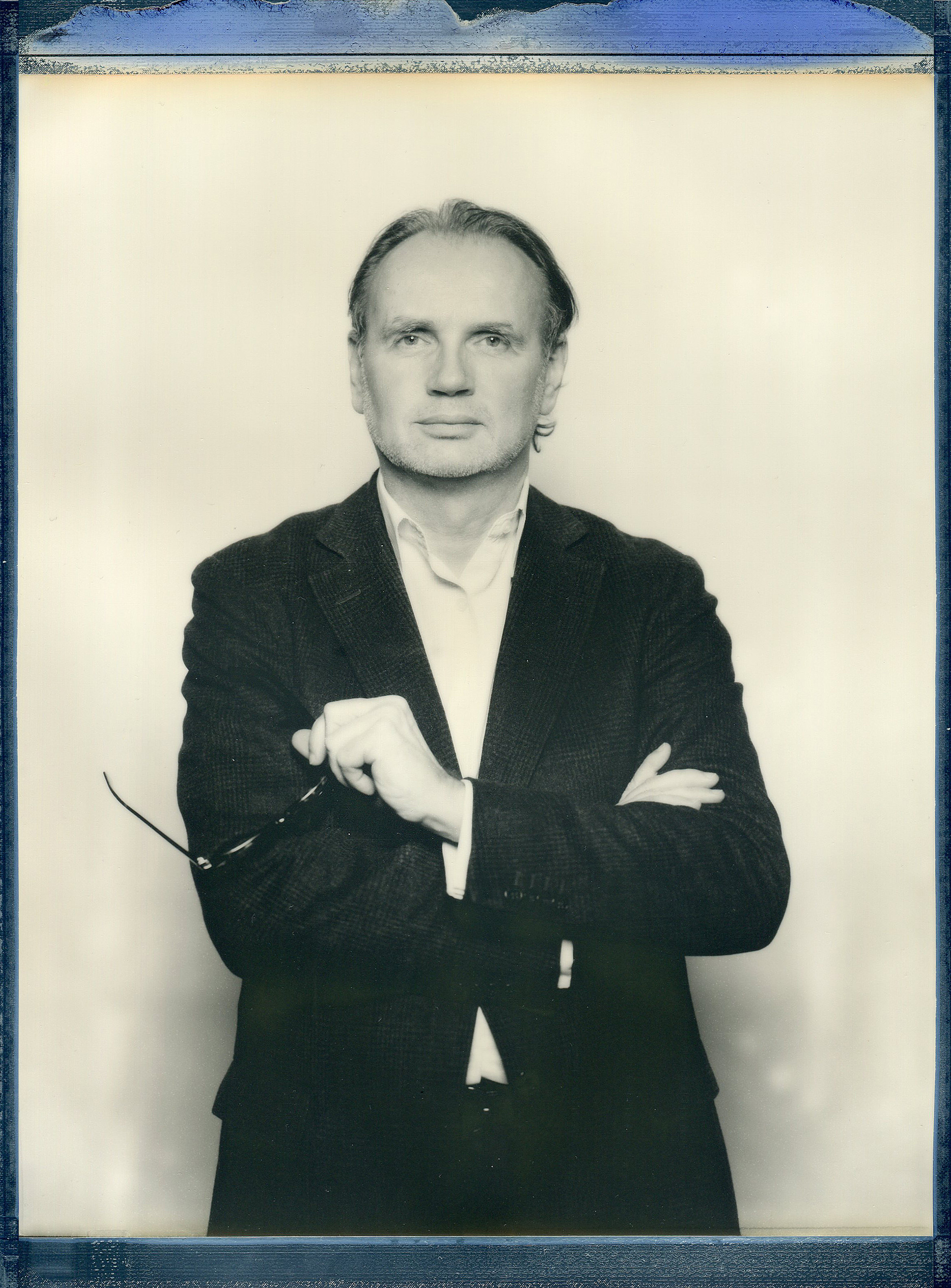 Alfred Weidinger, 2013